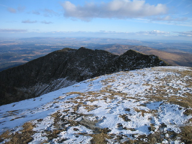 Ben Lomond Summit